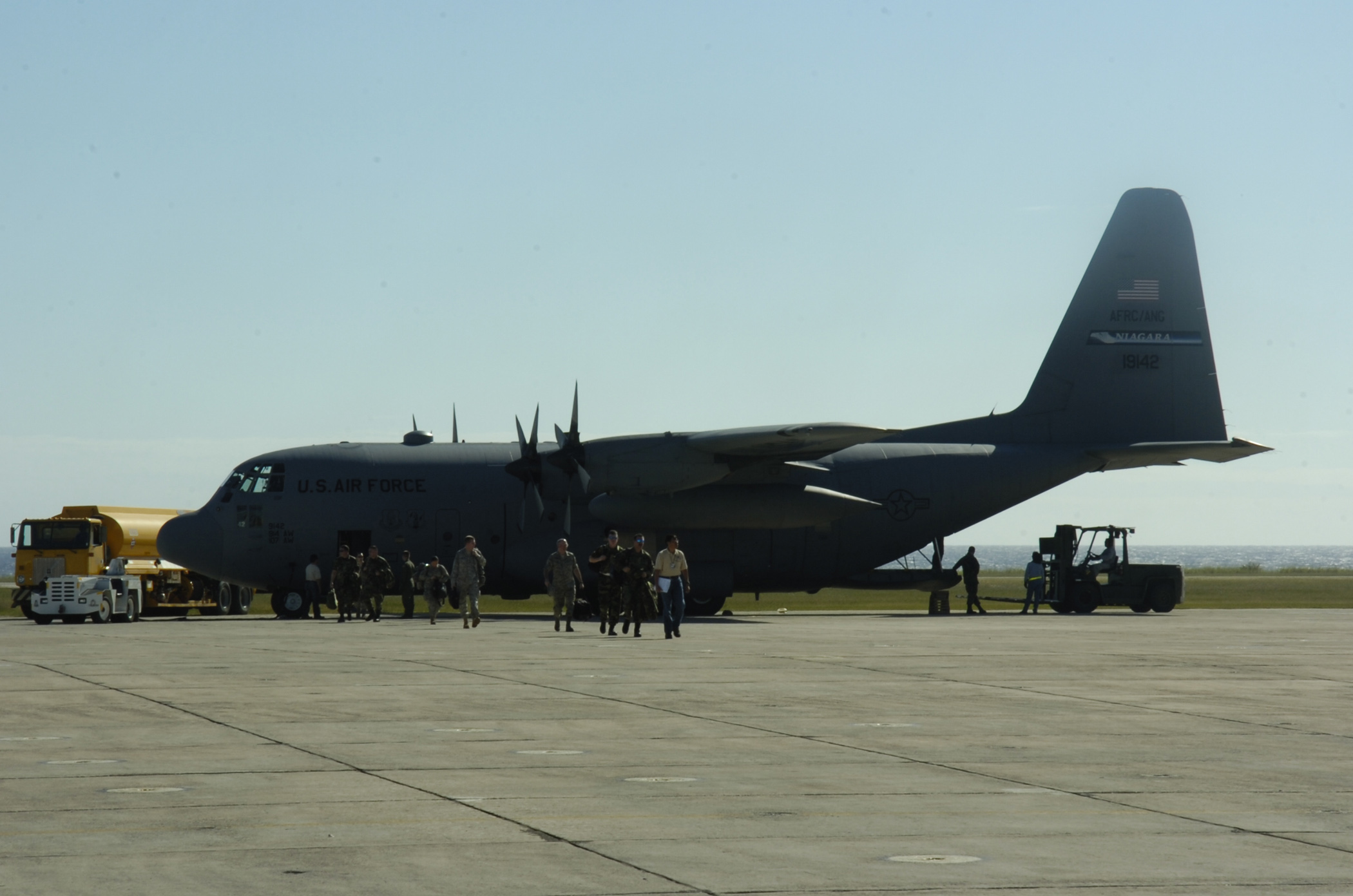 A U.S. Air Force airmen from the New York Air National Guard's 106th Civil Engineering Squadron (CES), 106th Rescue Wing out of Long Island, N.Y., disembark from a Lockheed C-130H Hercules (s/n 91-9142) at U.S. Naval Station Guantanamo Bay on 16 January 2010. The 106th CES was there for a two-week deployment for training and provided engineering and logistical assets to the naval station in support of Operation Unified Response, providing humanitarian assistance to Haiti. The Airmen arrived on a flight from their sister wing, the New York Air National Guard's 107th Airlift Wing from Niagara Falls.